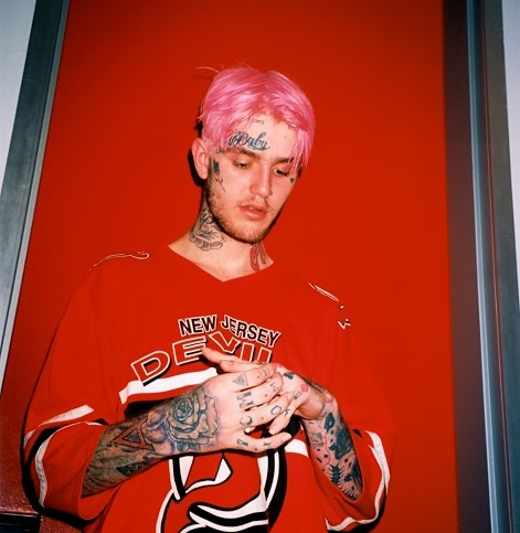 Lil Peep - Hellboy Cover Image